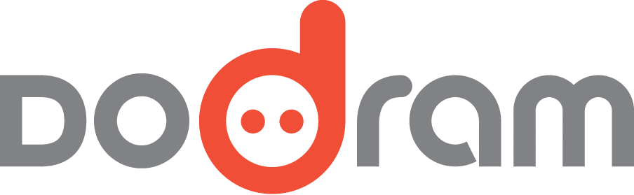 dodram pig farmer's cooperative corporation identity